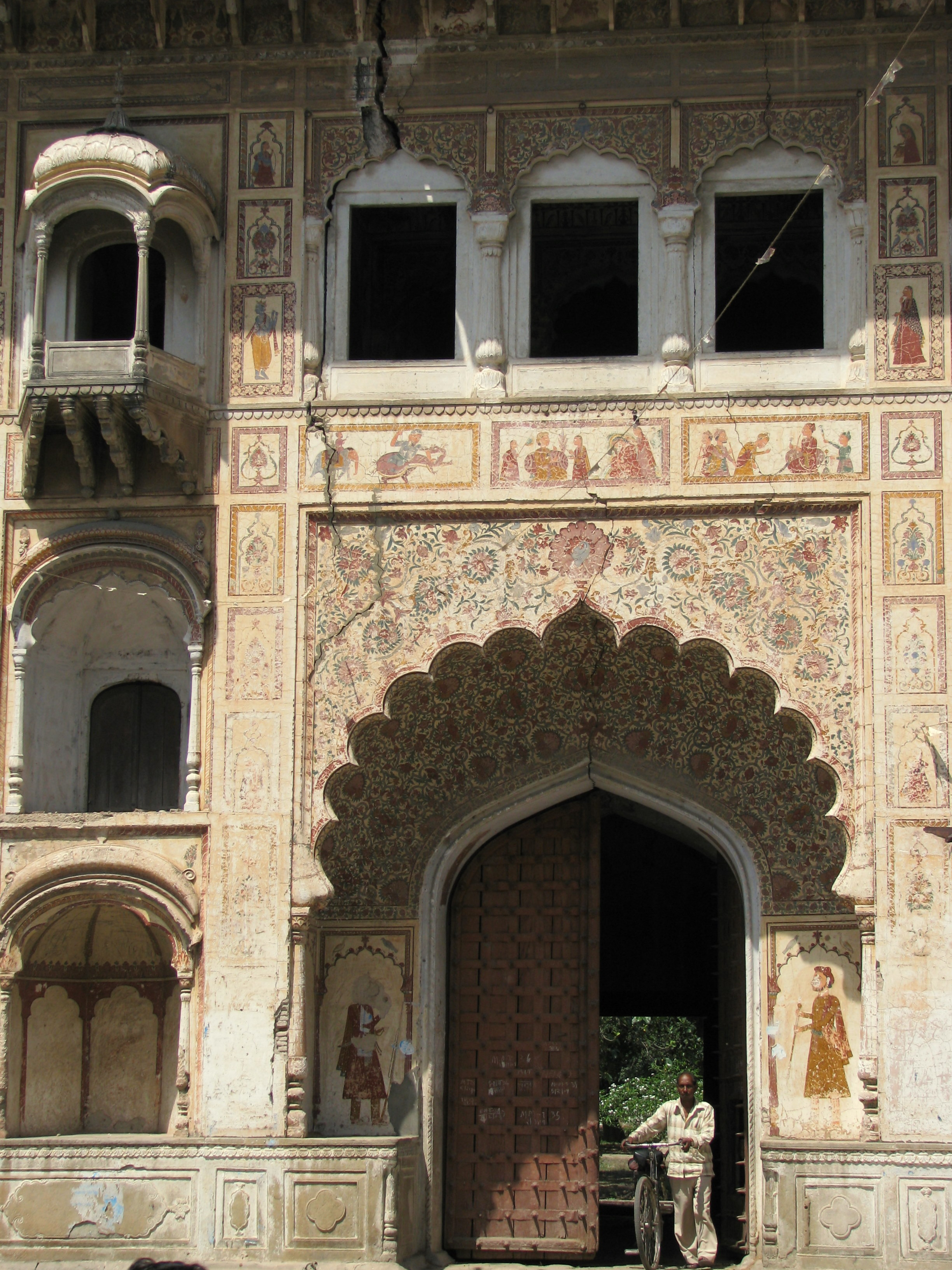 Front facade of Naya Udasin Akhara, Kankhal, Haridwar, with elaborate frescoes and inlay work. One of the many such old buildings in the area, now visitor's attraction in the area.